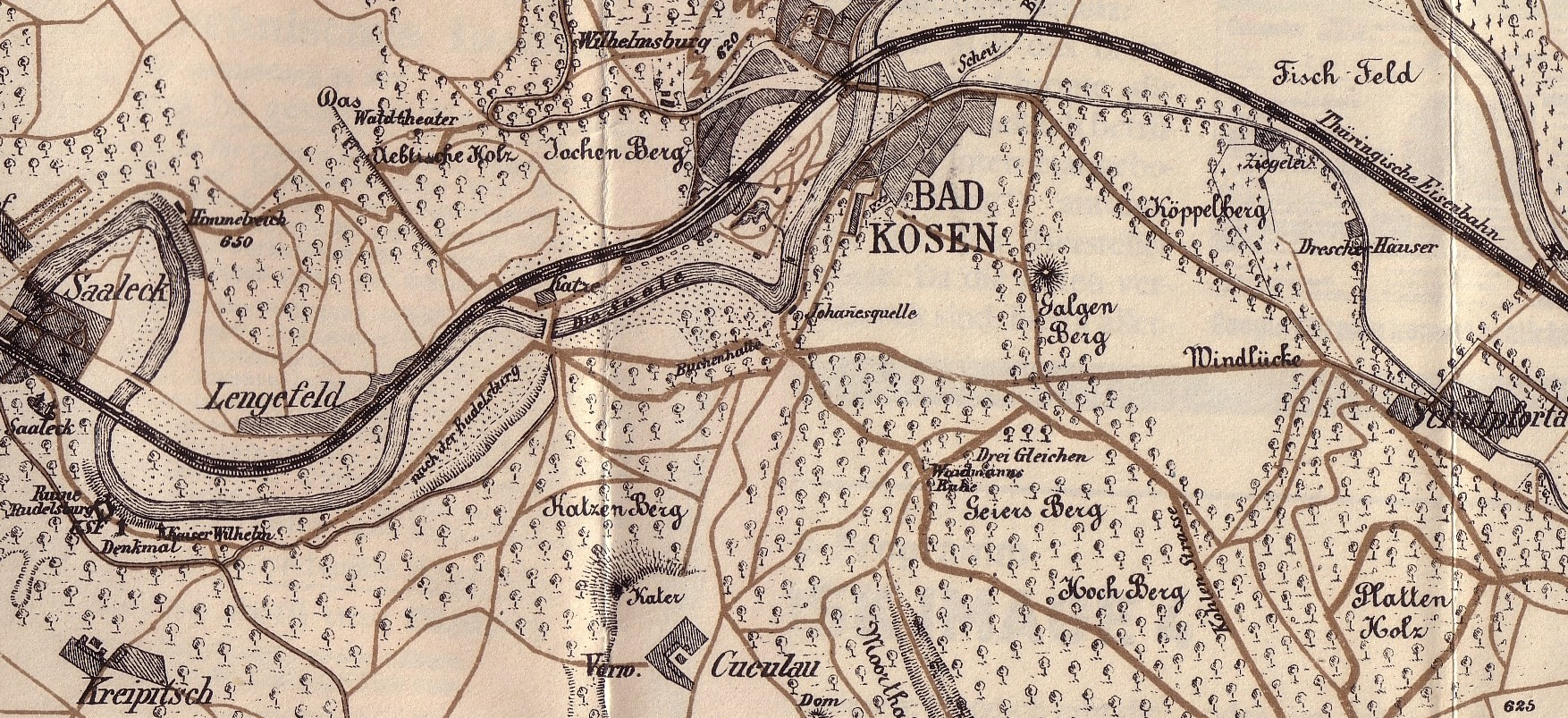 Map of Naumburg (Saale) and Bad Kösen ca. before 1910